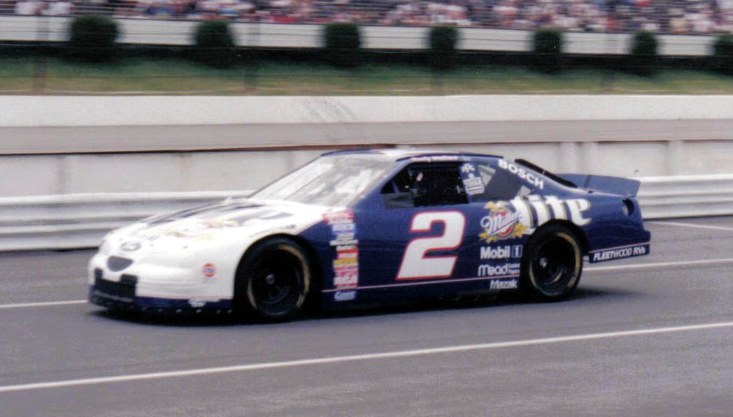 NASCAR driver Rusty Wallace Miller Lite car in 1997 at Pocono.